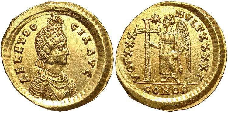 Aelia Eudocia AV Tremissis. Struck 425-429 AD. Constantinople mint. Aelia Eudocia, AV Solidus, 430, Constantinople, Officina 3 AEL EVDO_CIA AVG Pearl-diademed, draped bust right with necklace and earrings, hair elaborately weaved with long plait up the back of head and tucked under forehead jewel, hand of God wearing bracelet crowning from above VOT XXX-MVLT XXXX G Victory standing facing, head left, long jeweled cross in right hand, holding pleats of skirt with left